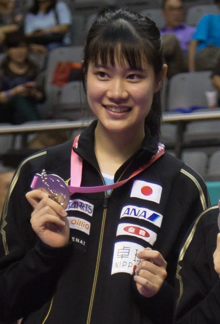 Yui Hamamoto